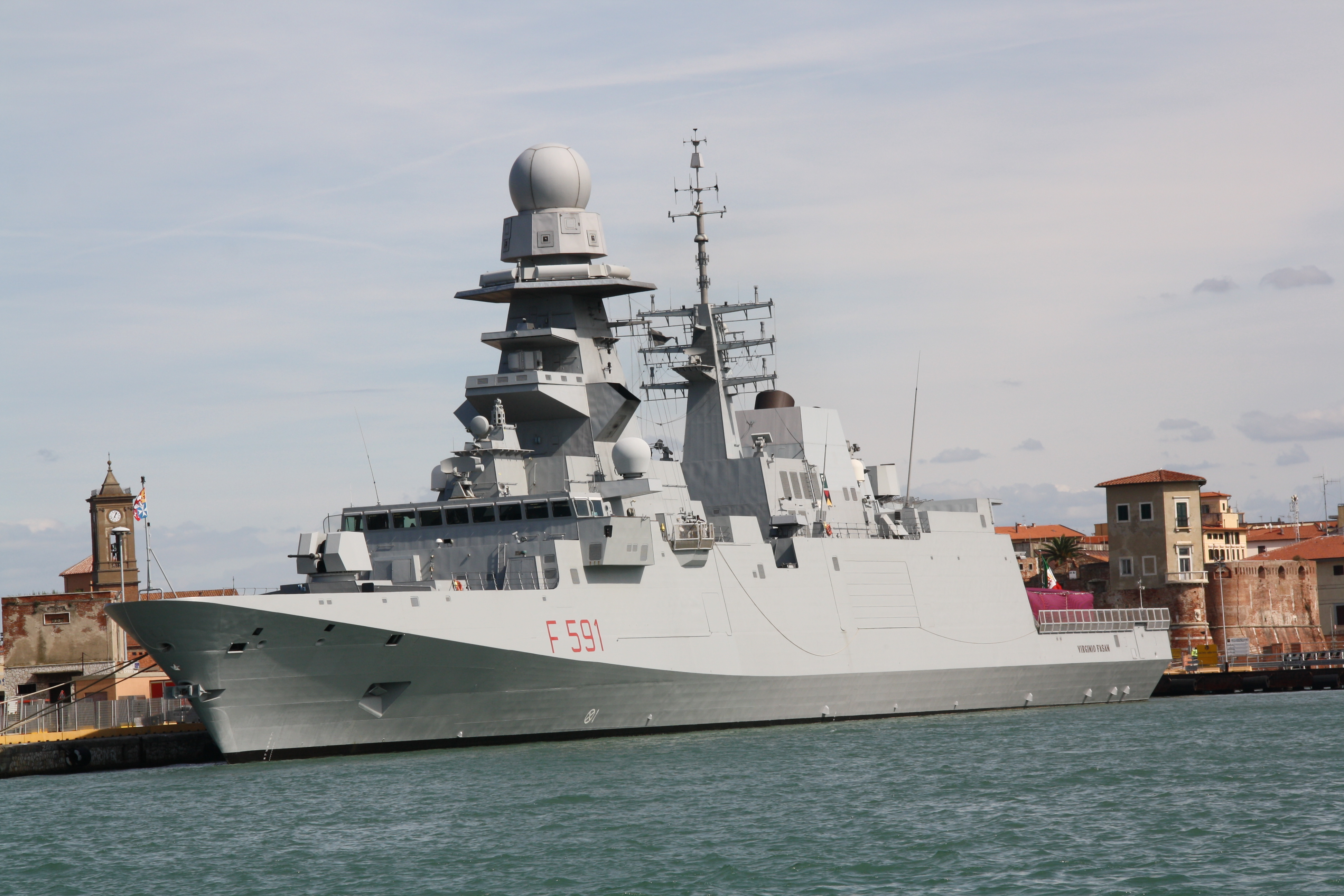 Italy Navy: Marina Militare Pennant number: F 591 Type: Frigate Class: Bergamini Keel laid: December 17, 2009 Launch date: March 31, 2012 Delivered date: December 19, 2013 Builder: Cantiere navale di Riva Trigoso Displacement: 6,700 t Length overall: 144 m Beam: 19.40 m Draft: 8.40 m Main engine: CODLAG system: 1 x Avio-GE LM2500 G4 plus gas turbine, 2 x Jeumont-Schneider electric engines 2,1 MW Electric power: 4 x Isotta Fraschini Motori V1716T2NE 2,190 kw Power: 32,000 kw Speed: 27 knots Range: 6,000 nm Crew: 167